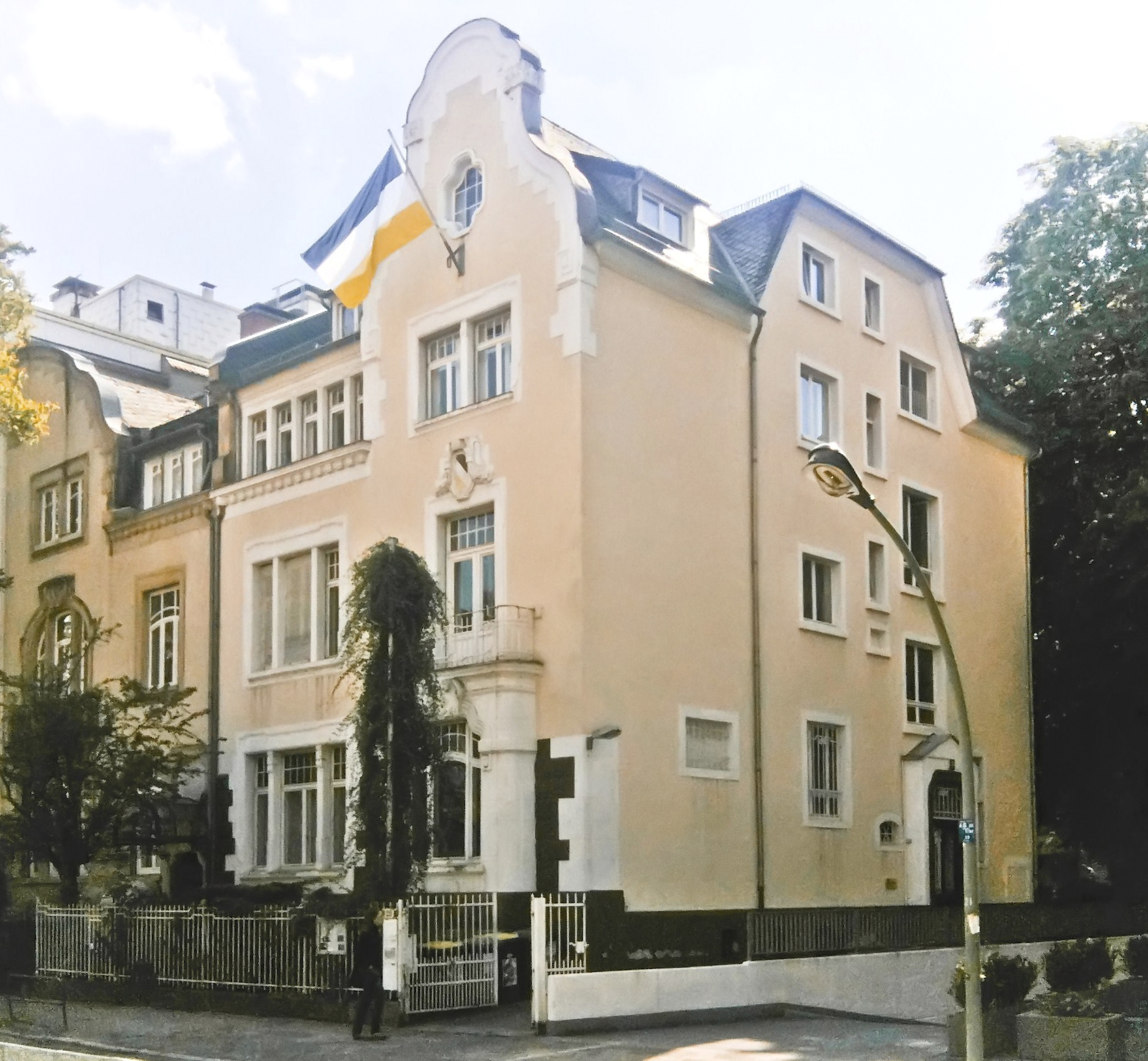 The frat house of Corps Austria Frankfurt